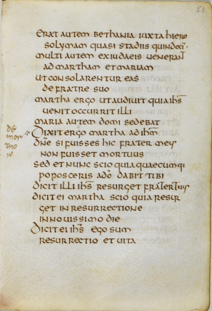 A page from the St Cuthbert Gospel relating part of the story of Lazarus, with a contemporary marginal note reading "de mortuorum", marking out a page to be read at masses for the dead (London, British Library, MS Additional 89000, f. 51r). John 11 18-25.